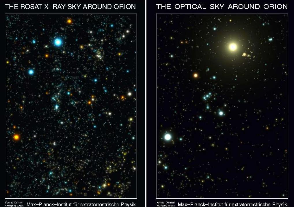 The constellation of Orion the Hunter, is one of the most familiar sights in the winter sky at night in the northern hemisphere. The image of Orion (above left), with the 3 "belt" stars, the bright blue star Rigel (just below the belt, to the lower right), bright red giant Betelguese (above the belt to the upper left) and the Orion Nebula (the cloudy patch below the belt and to the left) are well-known to earth-bound observers' eyes, sensitive to visible-band radiation. But what does the sky look like to someone like Superman, with eyes sensitive to X-ray radiation? This X-ray view is shown by the image on the left. This image was actually obtained by the ROSAT satellite during the All-Sky Survey phase in 1990-1991. The X-ray image shows the amount of very hot (temperatures greater than 1 million degrees) gas surrounding the stars in the Orion Nebula. This gas is generally heated by shocks as faster moving parcels of gas collide with slower moving parcels, though magnetic heating also plays a role. The X-ray colors represent the temperature of the X-ray emission from each star: hot stars are blue-white and cooler stars are yellow-red. The brightest object in the optical image is the full moon. The full moon is visible in the X-ray image too, but it's much fainter; the brightest X-ray source is the Crab nebula.